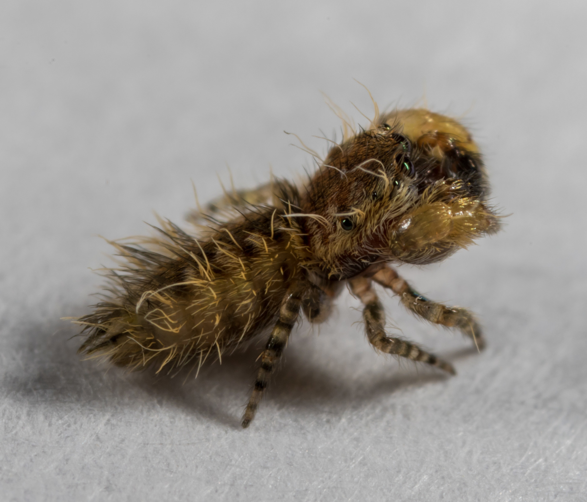 Uroballus carlei male.